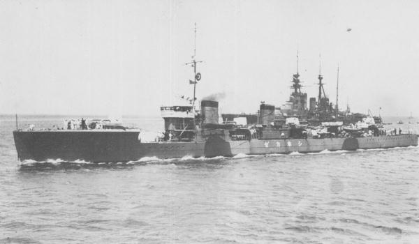 Imperial Japanese Navy destroyer Shiokaze, Minekaze-class, and battlecuiser Kongo.